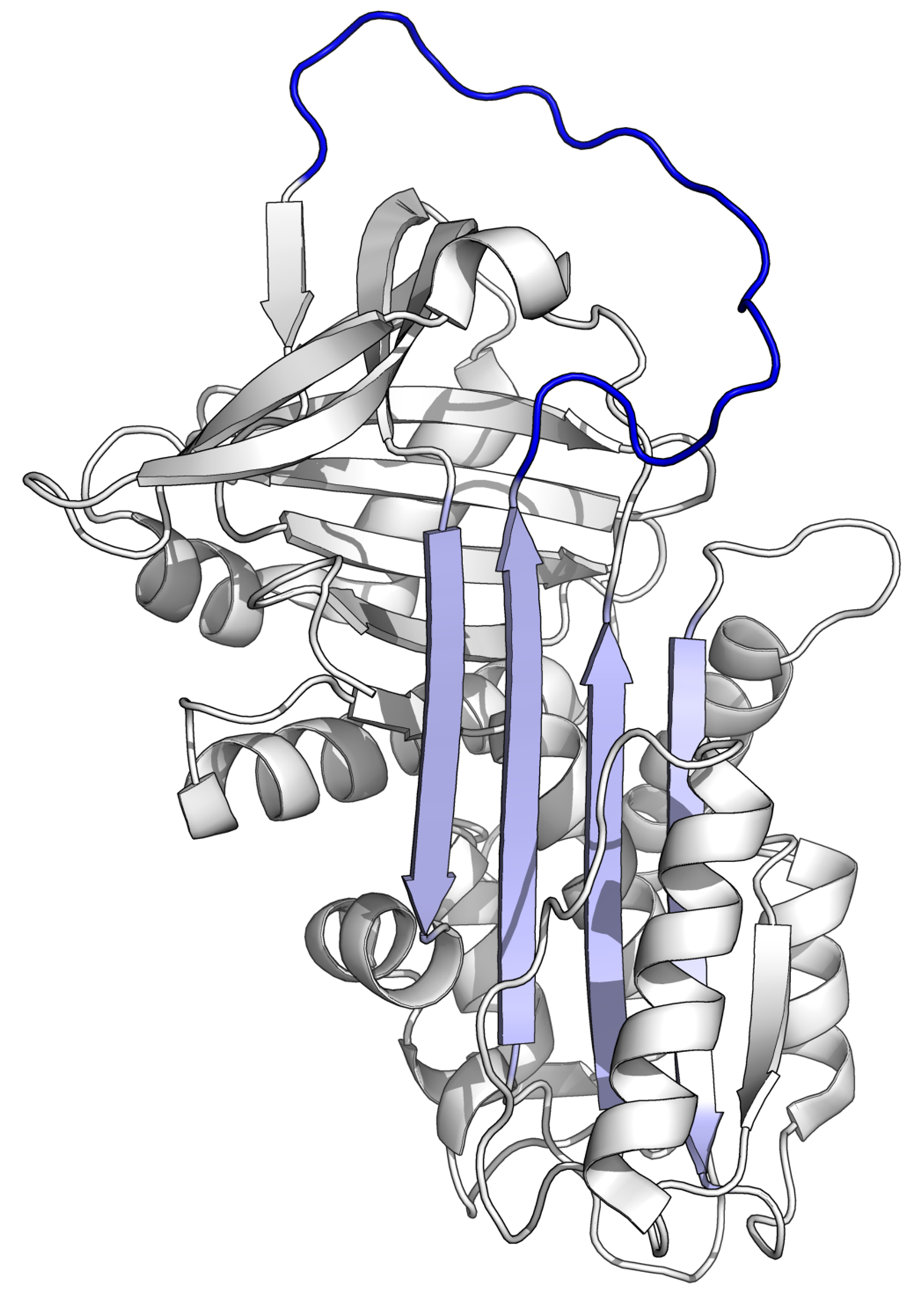 Alpha 1-antitrypsin (white) with highlighted 'reactive centre loop' (blue) and A-sheet (light blue). (PDB: 1QLP)